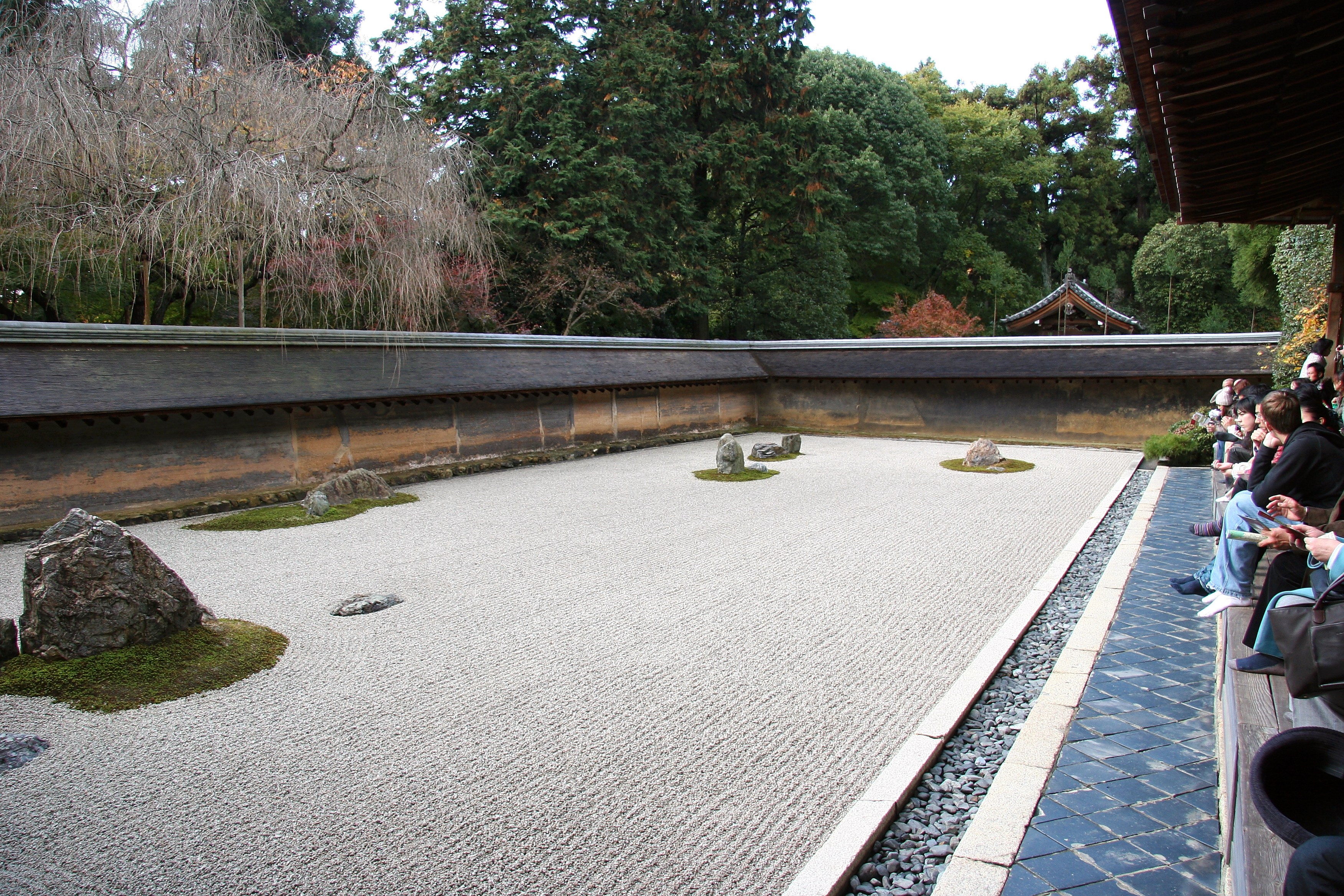 The dry garden at Ryoan-ji: yeah, it's kinda crowded, actually